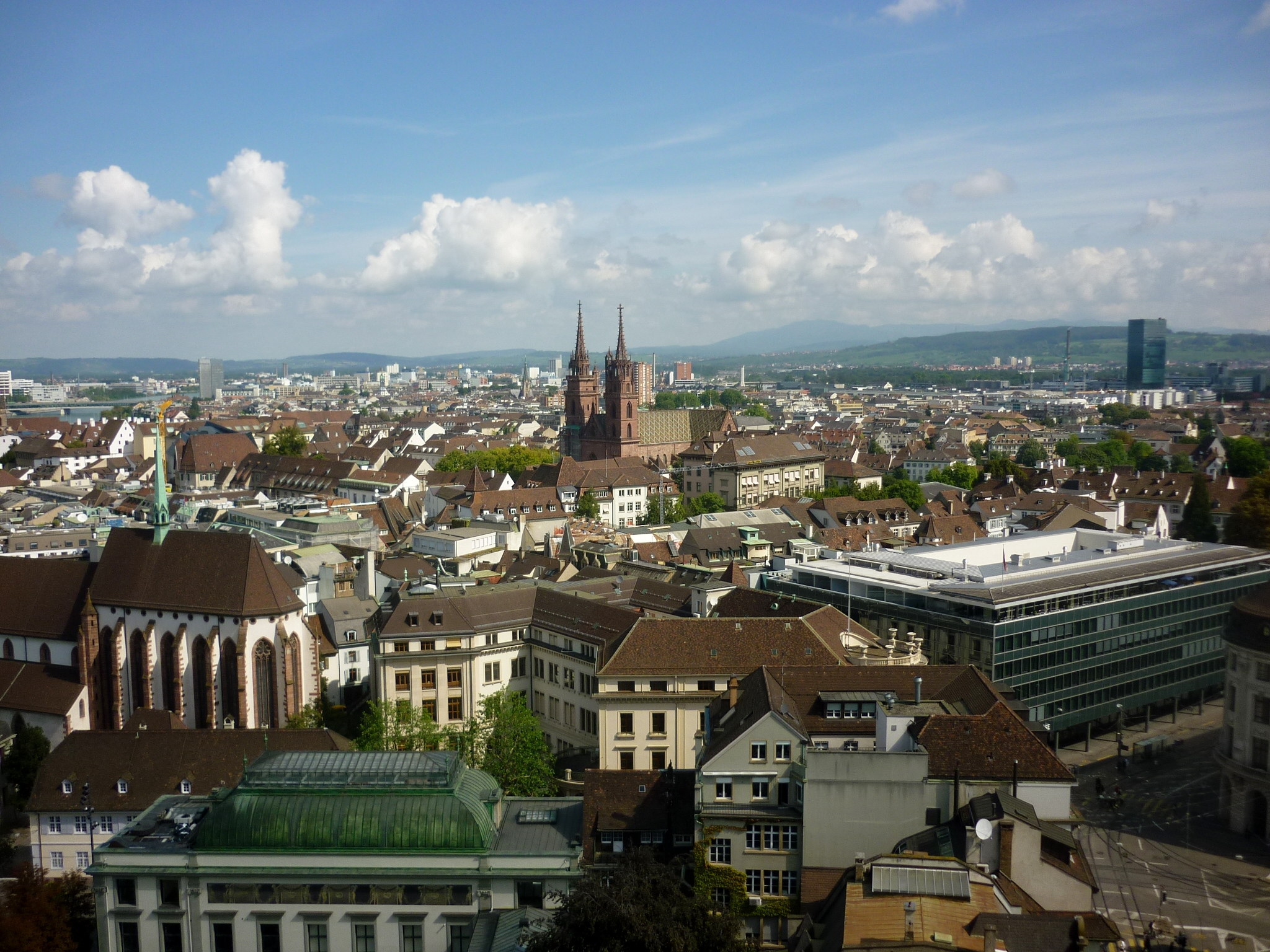 Basel from Elisabeth church